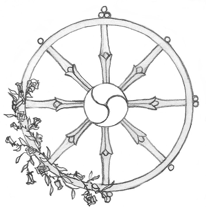 Dharma Wheel (flowers not traditional) Drawn by Pschemp